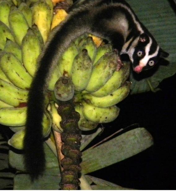 This photo was taken by my neighbour Jacqui Rock who has sent me an email permitting its use on Wiki Commons and in the "public domain" which I have just sent to the appropriate address